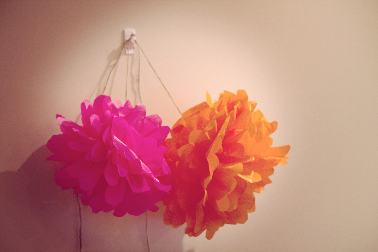 original description: My Wedding Decorations! Tissue paper flowers held up with twine. If I do a couple of these each night, I may just finish it all before the wedding in December! :) wedding decorations orange pink tissue paper flowers craft